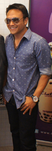 Photo taken at a press conference between Chatime and WeChat. On the far left and right are Malaysian celebrities and WeChat ambassadors, Lisa Surihani and Shaheizy Sam. Second to the left is Bryan Loo, CEO of Chatime Malaysia.